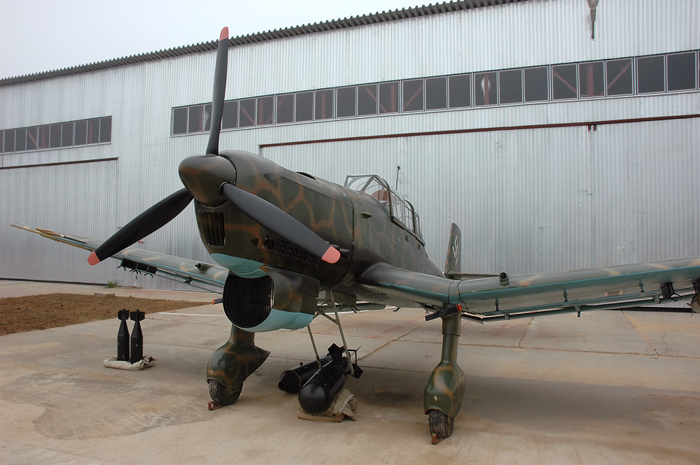 Junkers Ju-87 3/4 replica from The Central Air Force Museum in MoninoAuthor: Dmitry A. Mottlemail: dm_at_mottl.ru